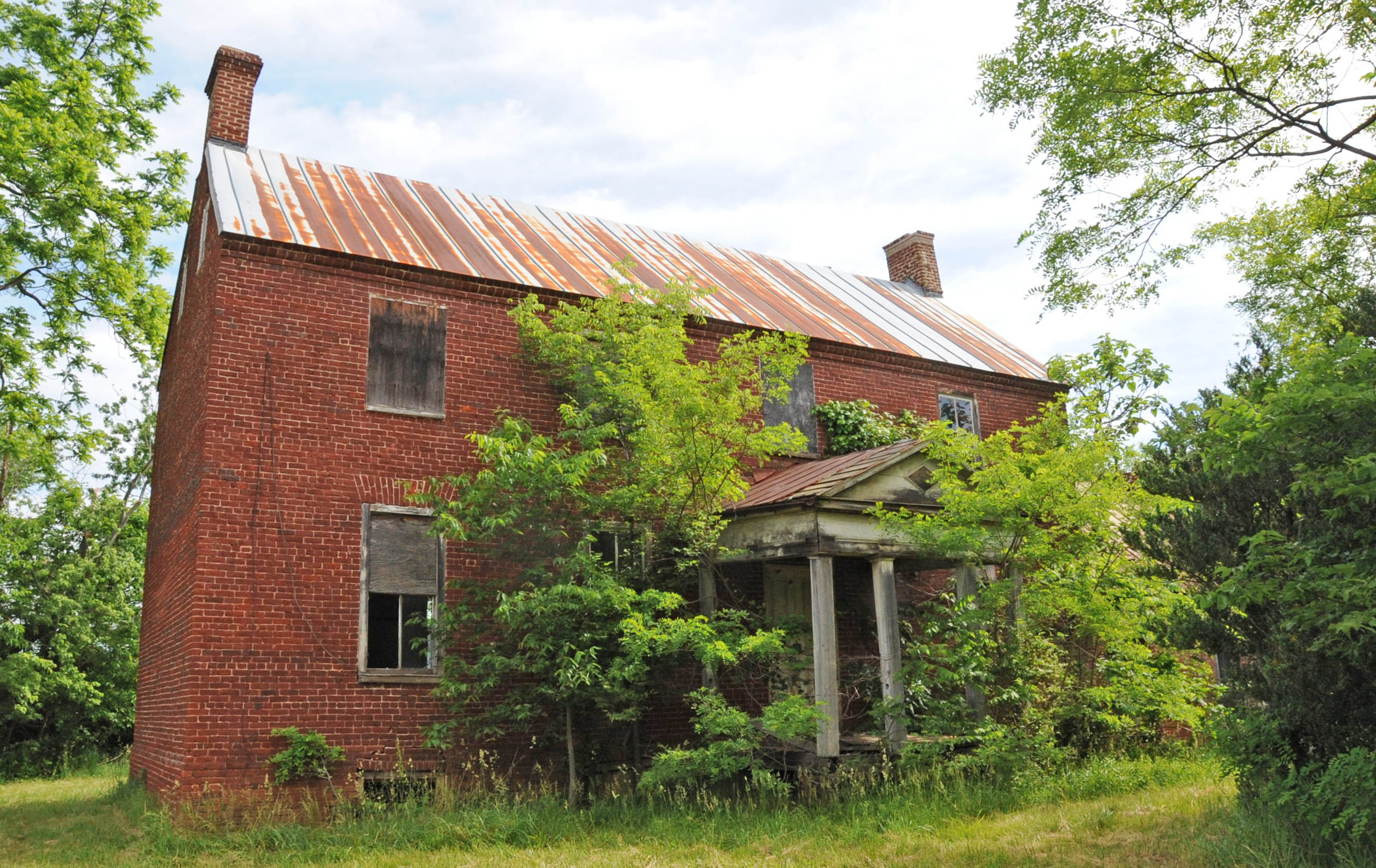 AKA ROLLINGWOOD FARM; MAIN HOUSE BUILT IN 1811. THE HOUSE NOW APPEARS VACANT BUT THERE ARE OTHER BUILDINGS ON THE FARM WHICH ARE BEING USED.